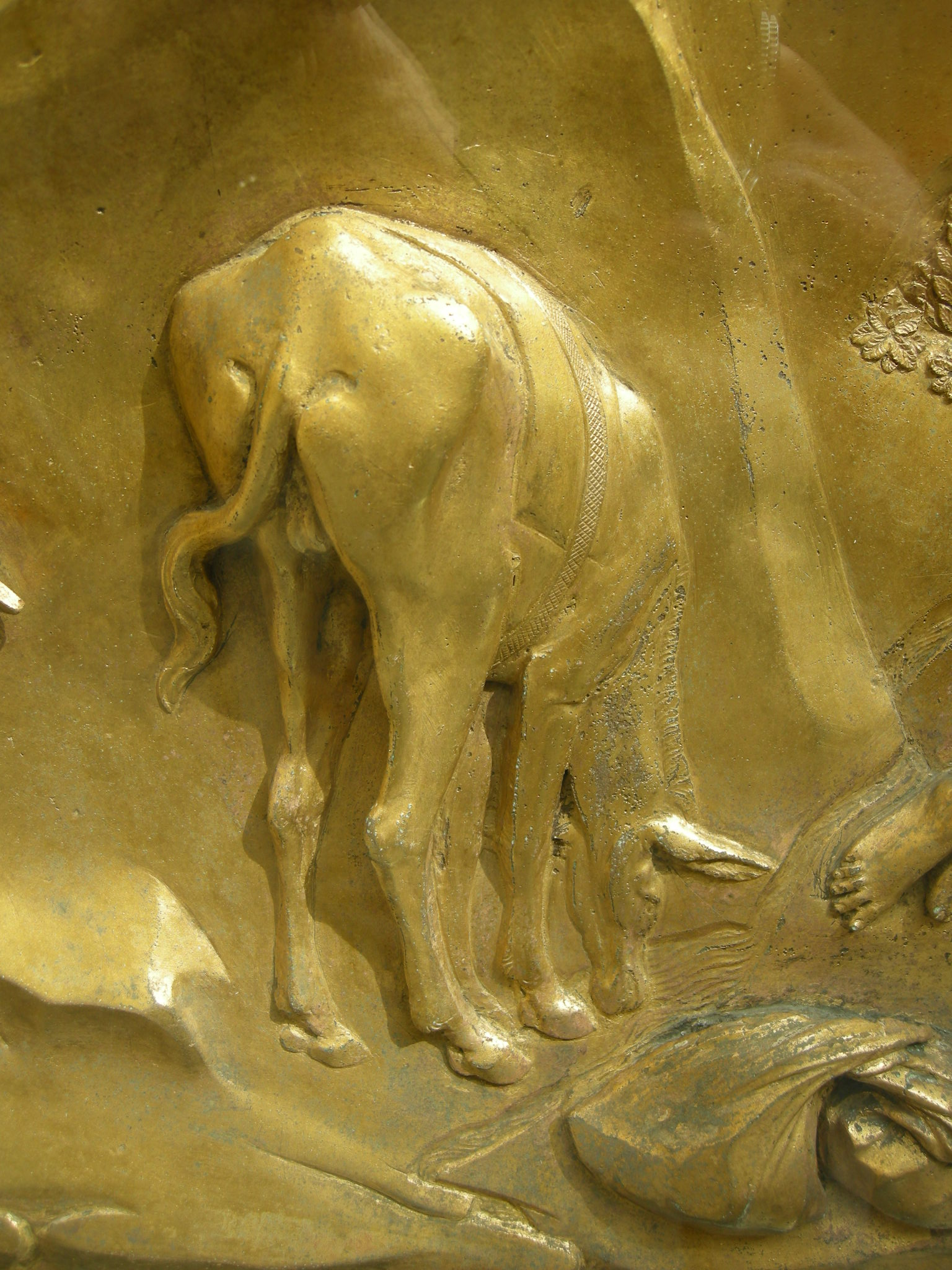 Abraham (Gates of Paradise)